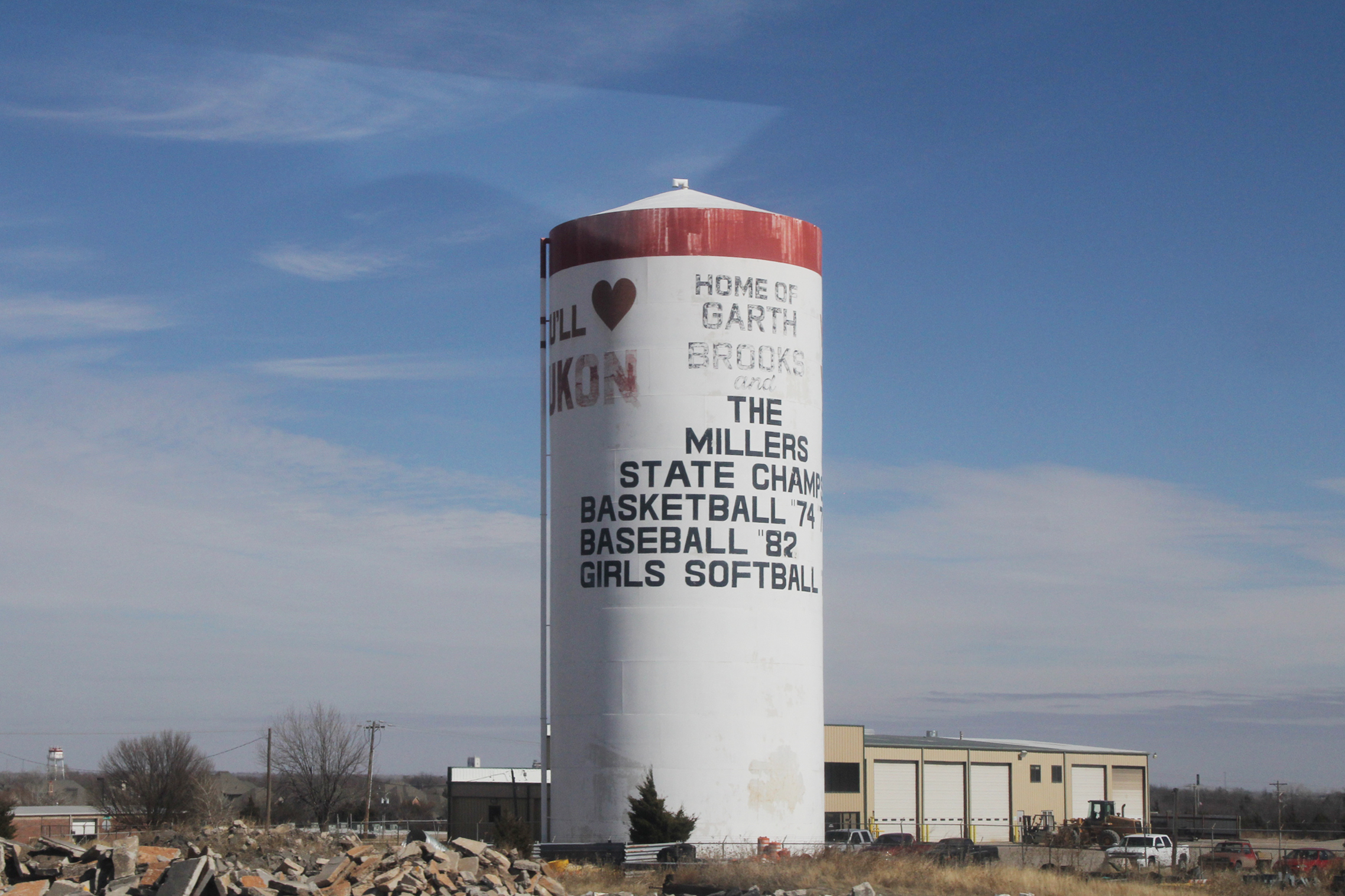 Garth Brooks Watertower, Yukon Oklahoma USA